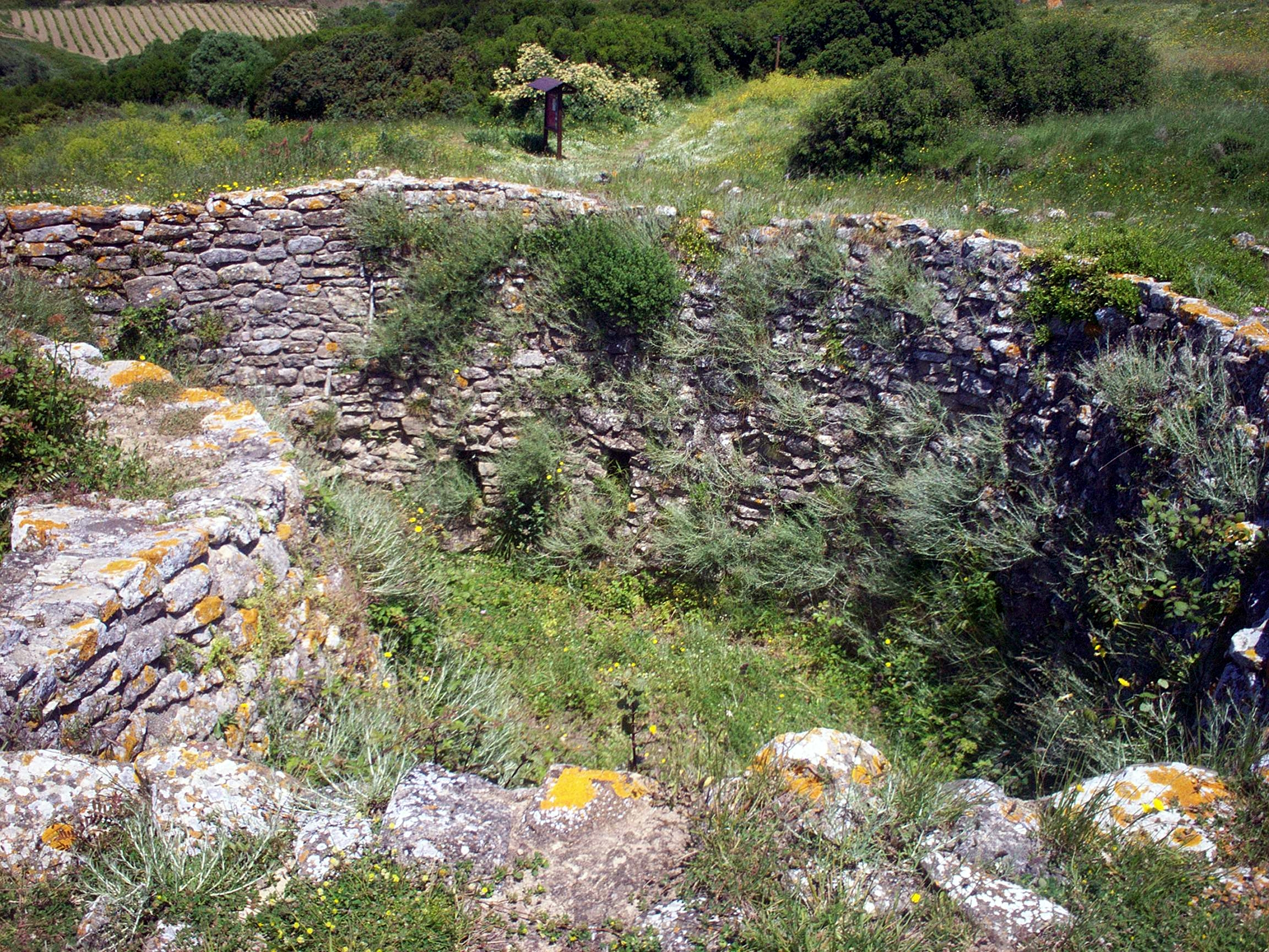 The inner wall that constitutes the barbican built in the 2nd phase of occupation of Castro Zambujal.